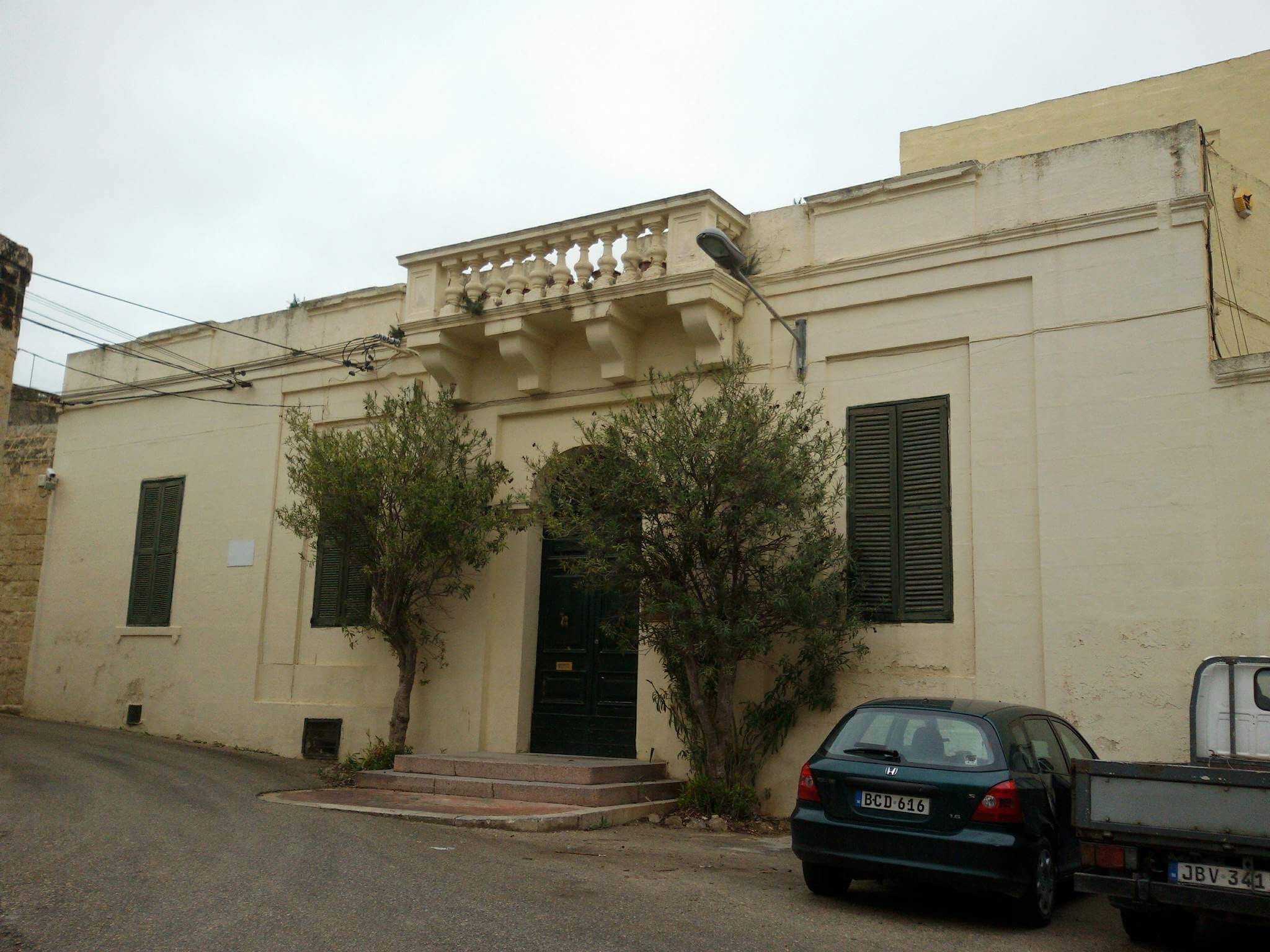 Lija Walk